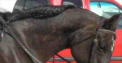 A horse's mane with a French braid, sometimes called an "Andalusian" braid. In this case, the horse is an Arabian, which also uses this style of braid in some hunter competition